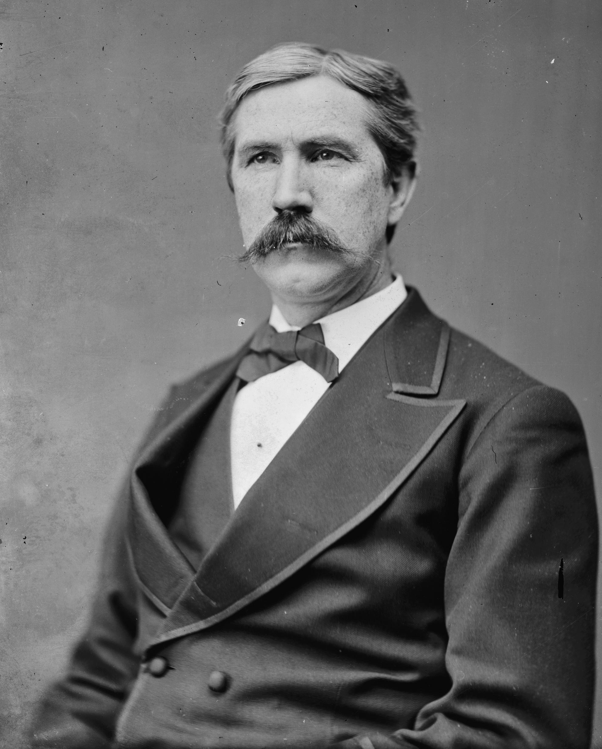 Clinton D. MacDougall. Library of Congress description: "MacDougall, Hon. Clinton D. of N.Y. Capt. 75th N.Y. Inf., Lt. Col. 111th N.Y. Inf.".